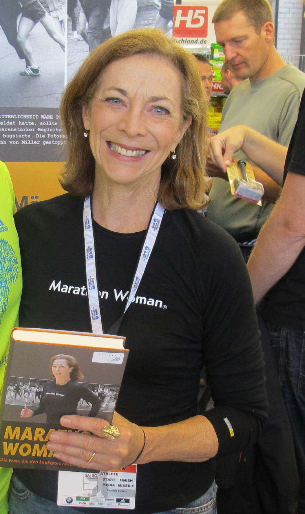 Kathrine Switzer at the 2011 Berlin Marathon Expo. She holds her autobiography, Marathon Woman. Behind her, famous photographies of her during the 1967 Boston Marathon.